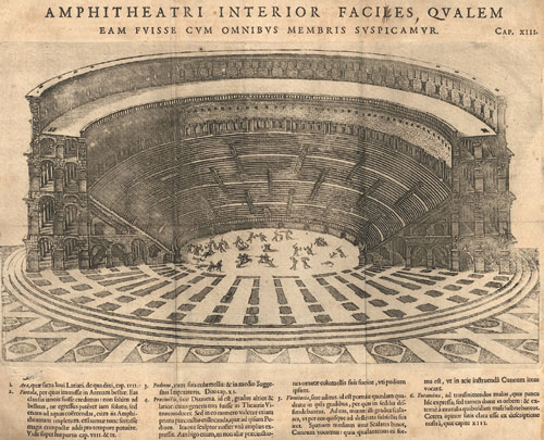 Illustration from: Justus Lipsius: De Amphitheatro Liber. In quo forma ipsa Loci expressa, & ratio spectandi. Cum aeneis figuris. Antwerpen: Plantin (apud Franciscum Raphelengium), 1589 (first edition: 1584, this is from a later edition of 1589)